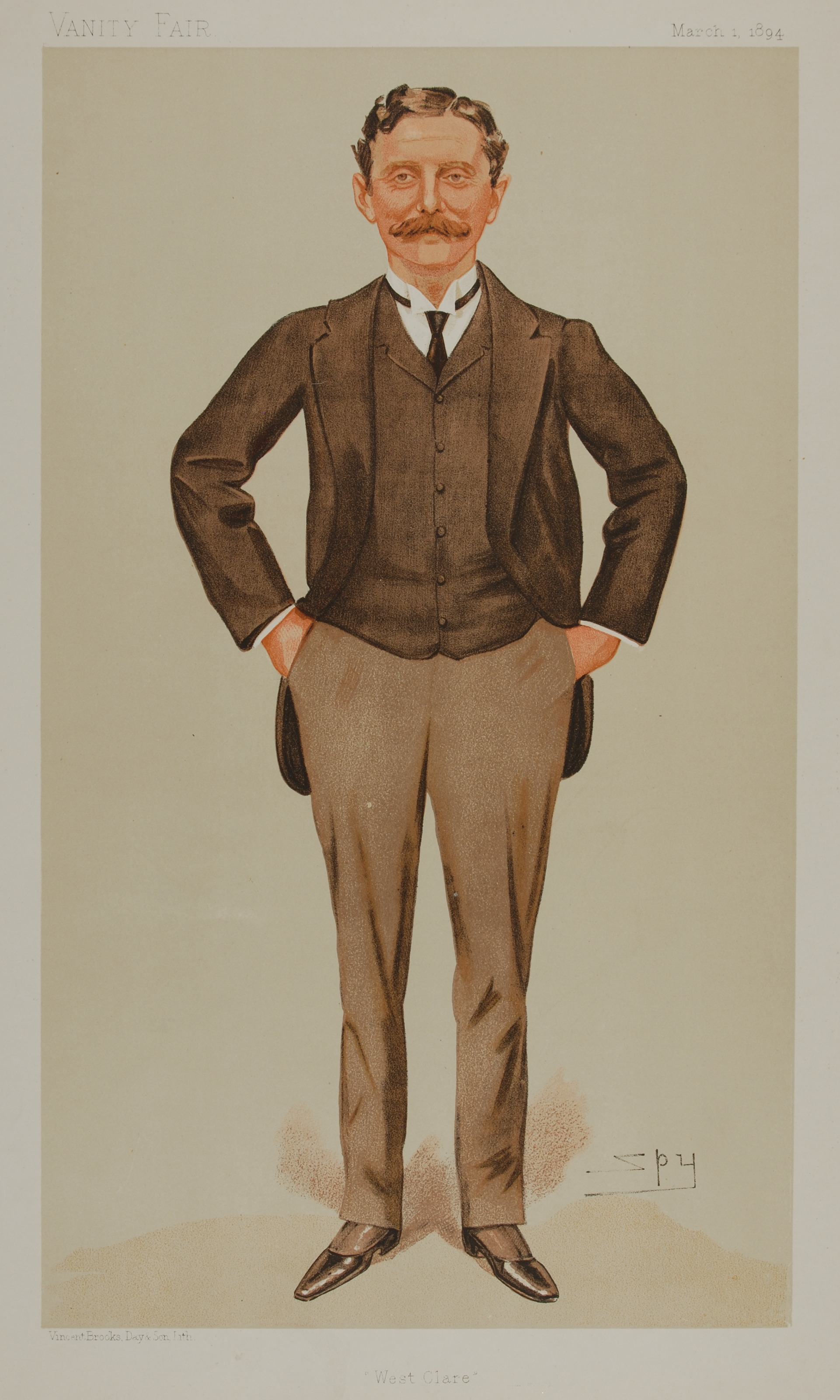 Statesmen No. 633: Caricature of James Rochfort Maguire M.P.. Caption read "West Clare".